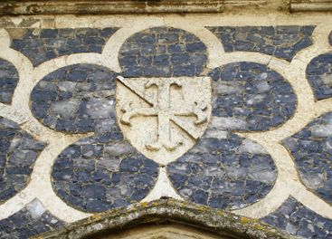 Armorials of Sir Guy Ferre(d.1323), steward of Queen Eleanor of Castile: Gules, a fer-de-moline argent over all a bendlet azure, in flushwork above the pedestrian entrance of Butley Priory, Suffolk. Source: Boutell, Charles. Heraldry Historical & Popular, London, 1863